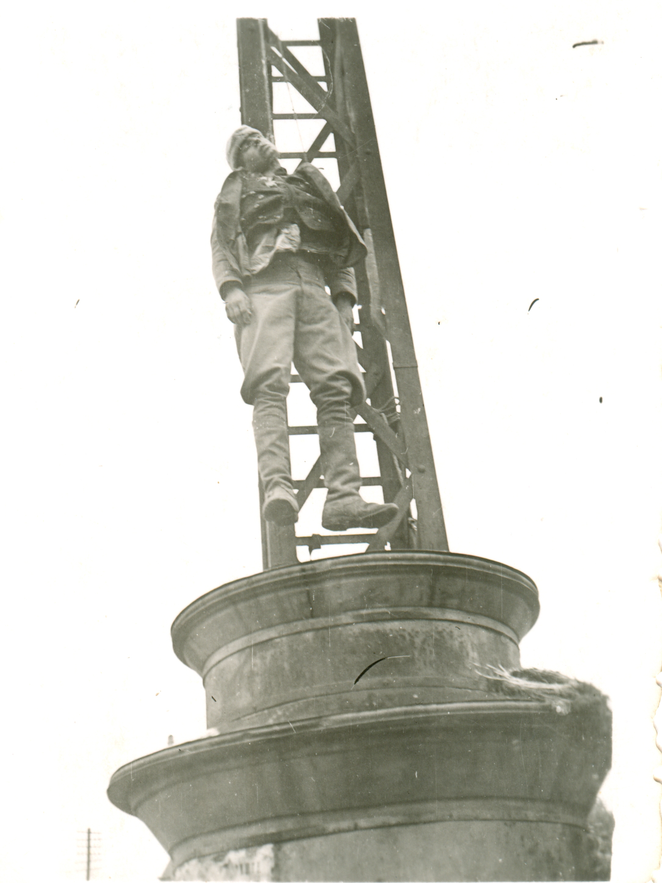 Serbian soldier hanged in Belgrade 1941. Srpski (latinica): Obešeni srpski vojnik u Beogradu 1941.